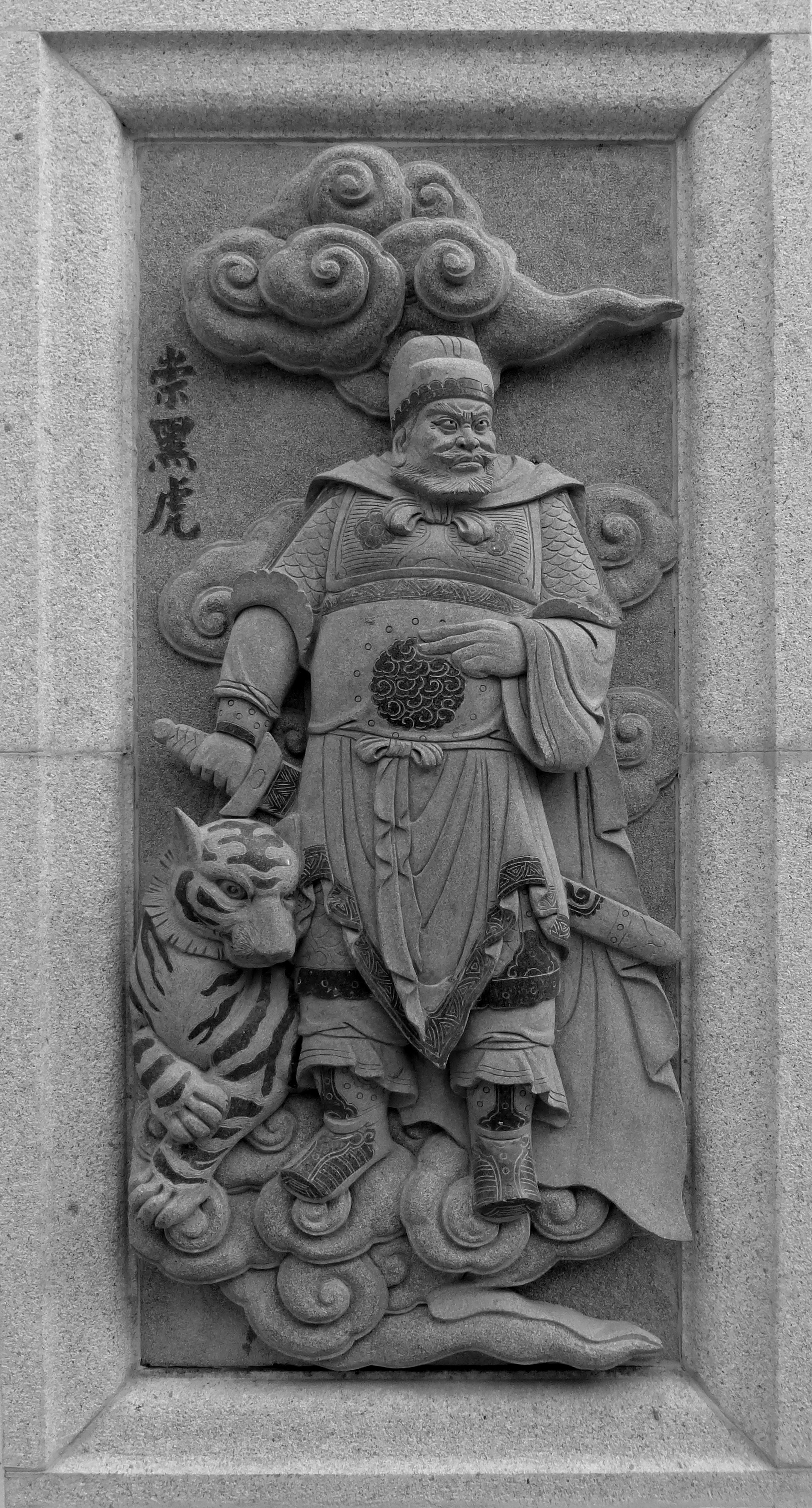 106 Chong Hei Hu, Investiture of the Gods at Ping Sien Si, Pasir Panjang, Perak, Malaysia Photograph from the Ping Sien Si Temple in Perak, Malaysia taken by Anandajoti.